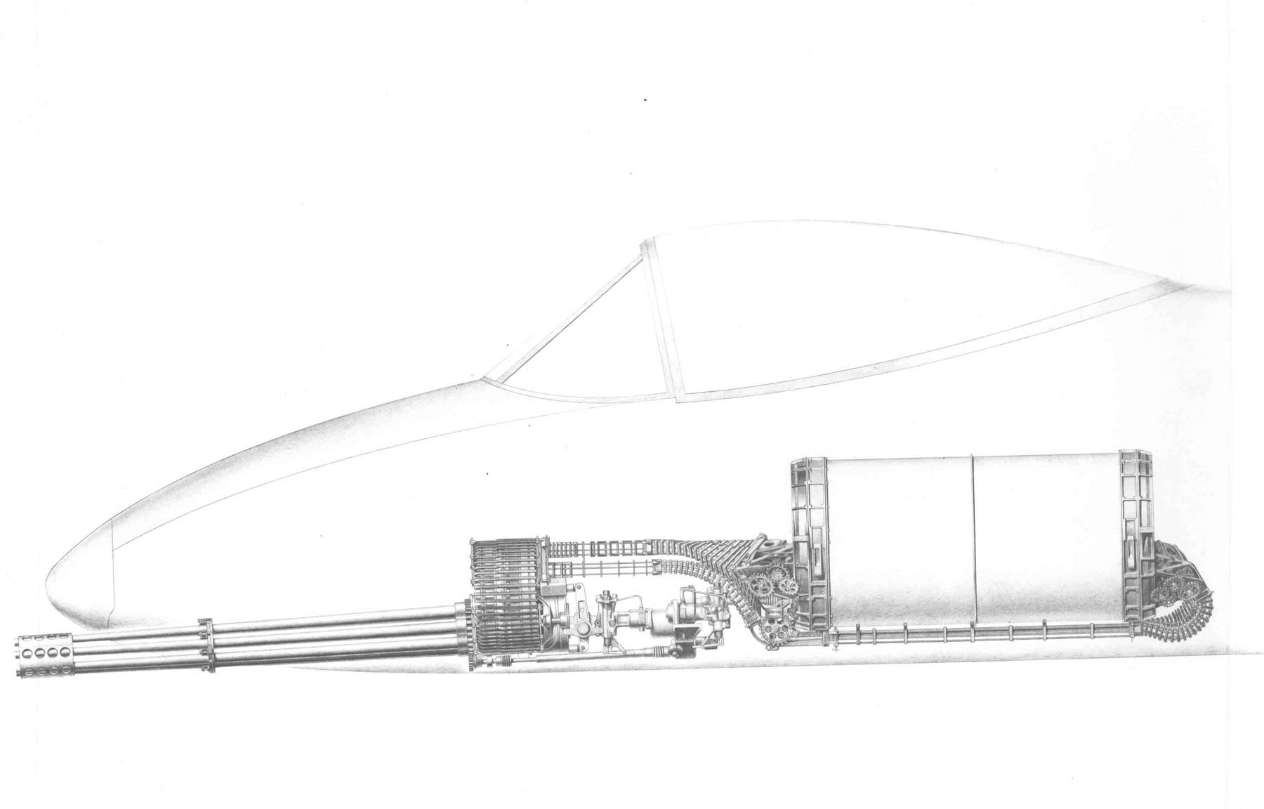 General Electric GAU-8/A side view drawing, showing approximate location of gun when installed. Actually not in scale.